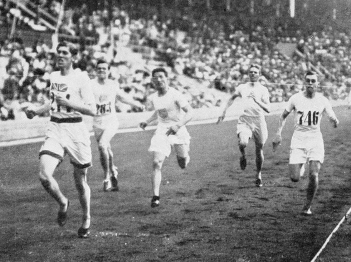 The finish of the men's 1500 metre final at the 1912 Summer Olympics with the winner Arnold Jackson setting a new Olympic record.